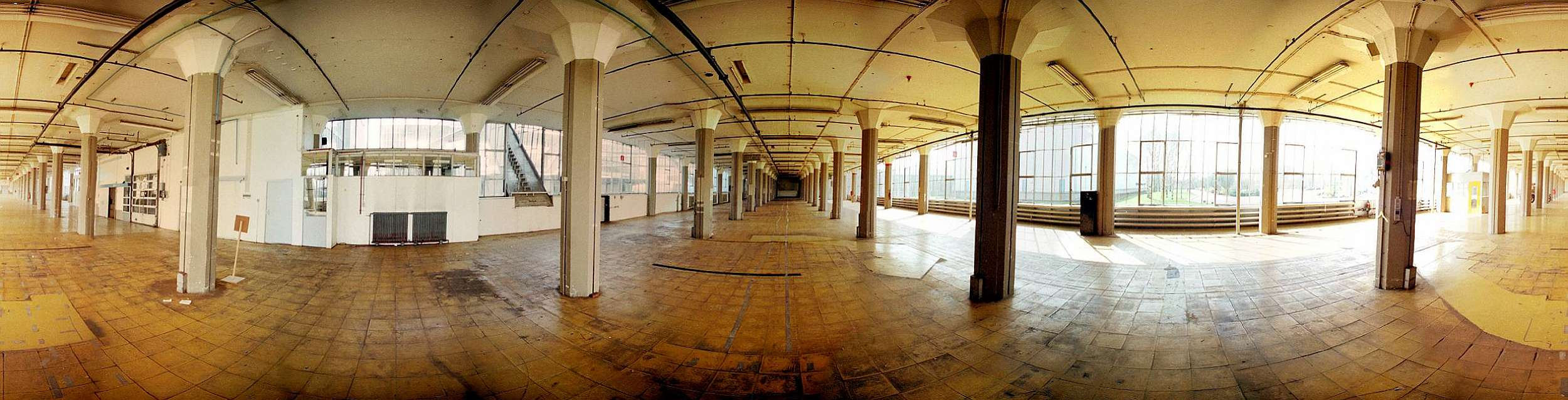 Interior view of the former Van Nelle factory, Rotterdam, Netherlands. Industrial monument. UN World Heritage candidate site. Full 360° panorama. (Picture: Tom Ordelman)